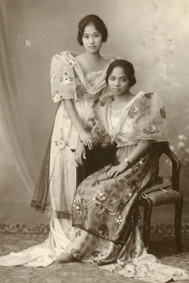 Japanese Filipina girl wearing Maria Clara gown